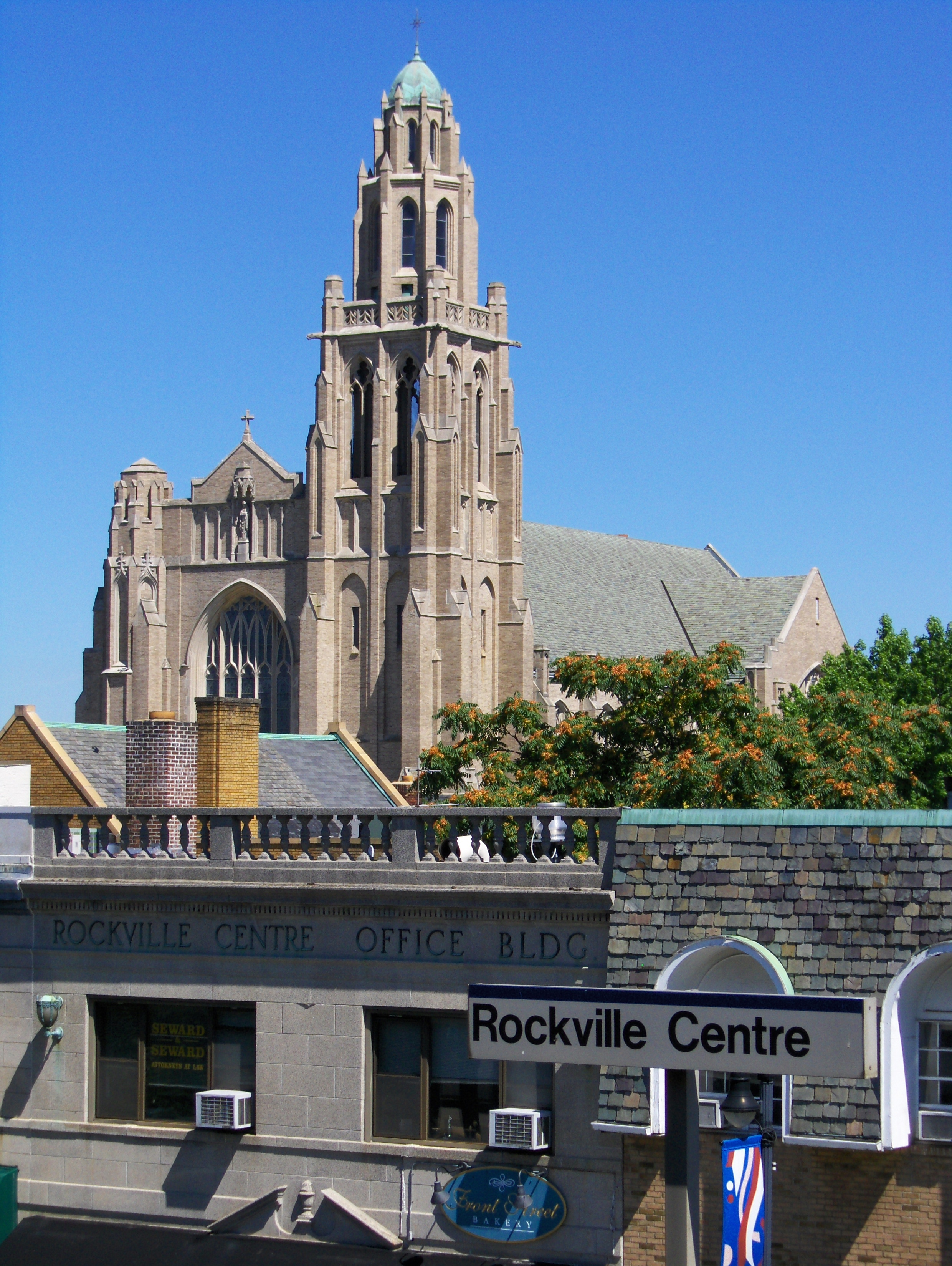 St. Agnes Cathedral, The cathedral of the Diocese of Rockville Centre, as seen from the train station. (The Diocese of Rockville Center is the Catholic diocese that encompasses Long Island.) Location: Rockville (New York)